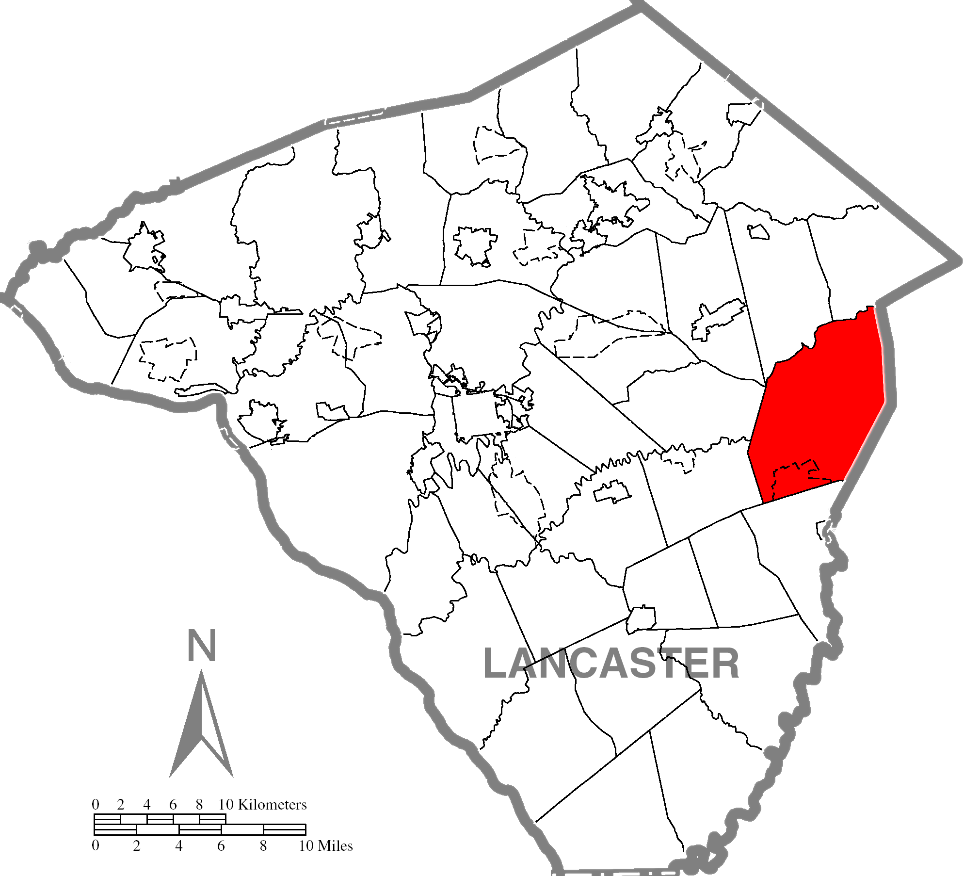 Highlighted Lancaster County map of Salisbury Township.